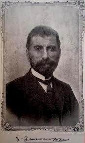 This is a picture of Armenian author Tlgadintsi.